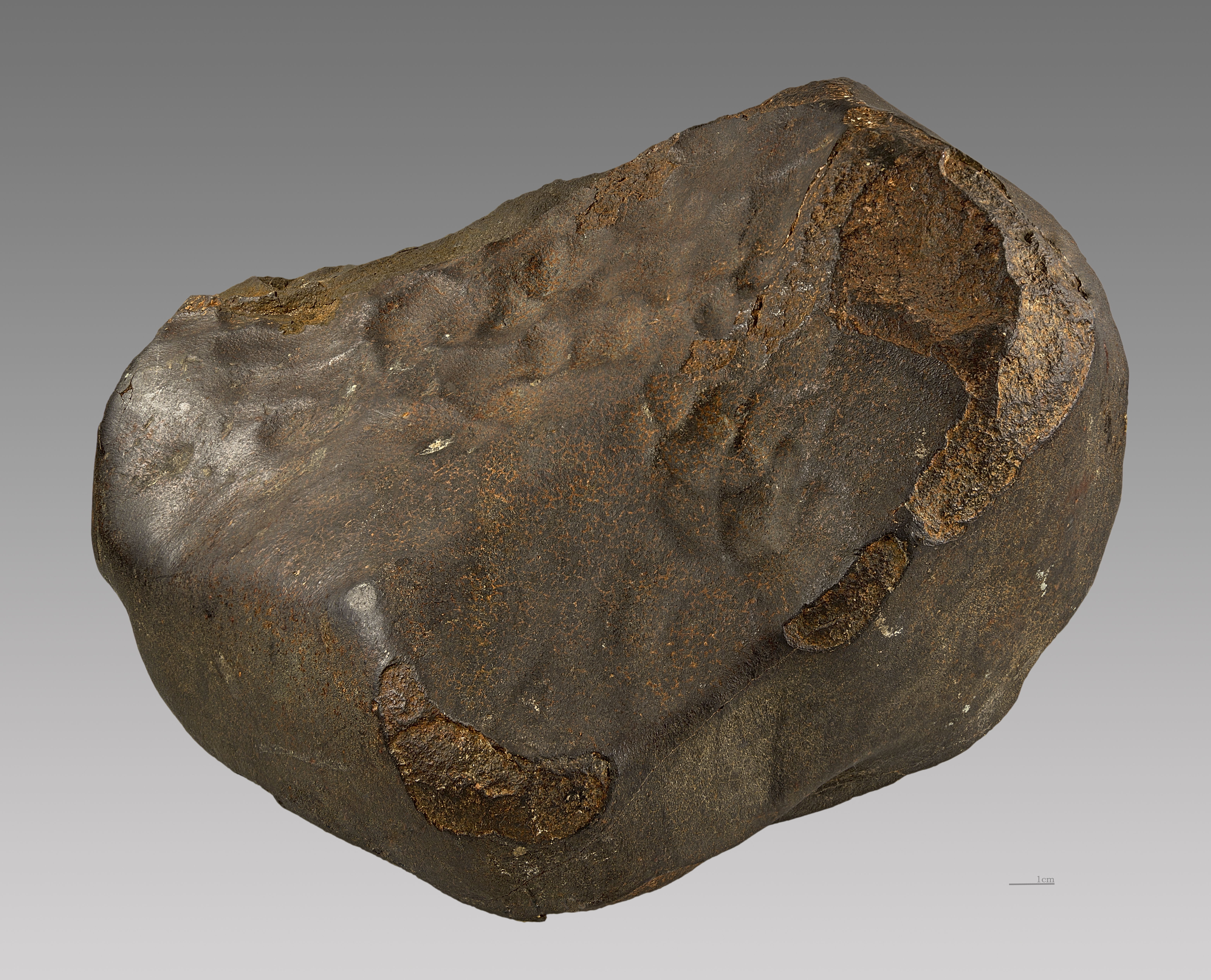 Saint-Sauveur meteorite, Chondrite EH5, 14Kg. Fell in 1914.